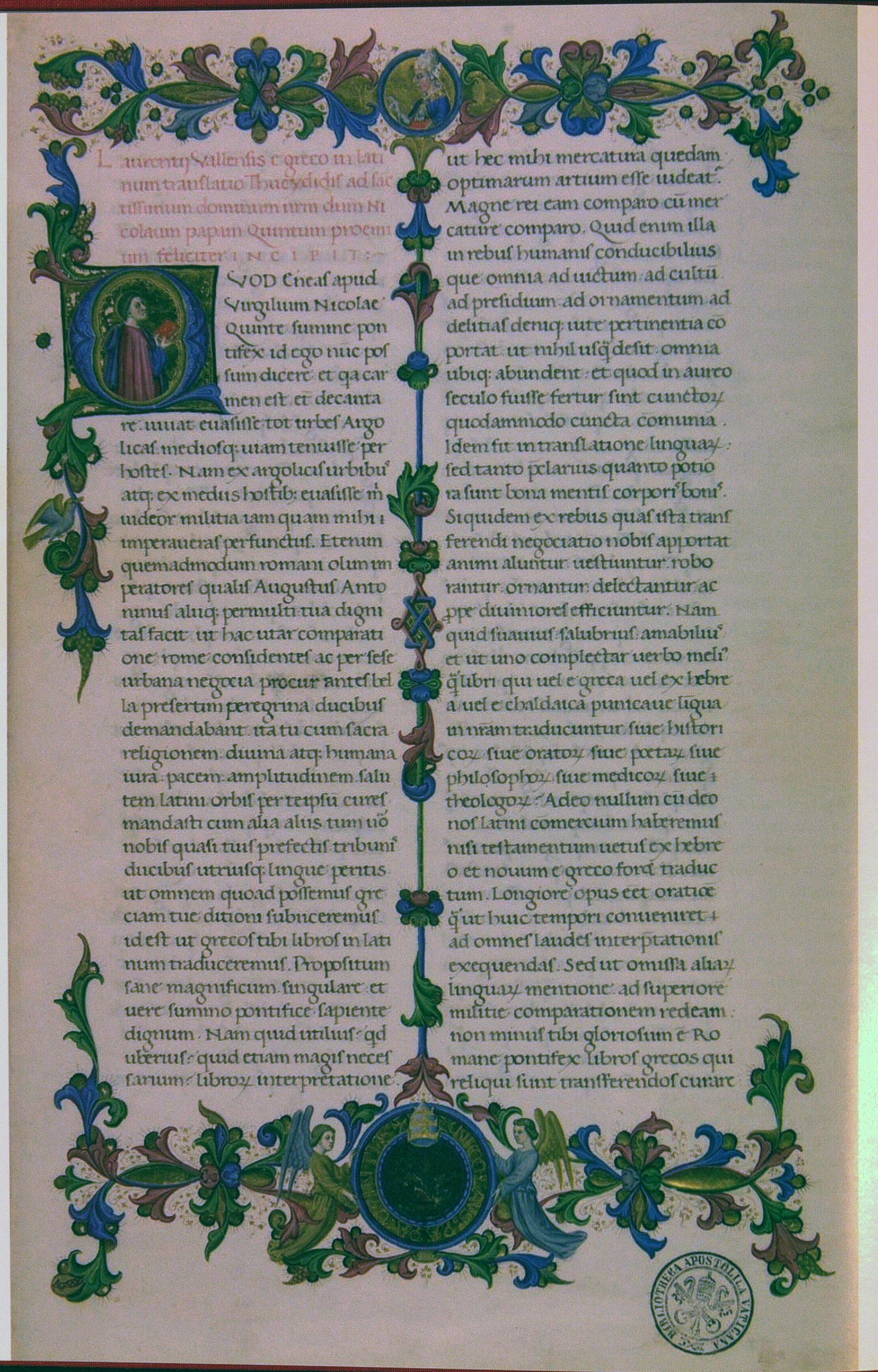 The beginning of Lorenzo Valla’s preface to his Latin translation of Thucydides’ „History of the Peloponnesian War” in the dedication copy for Pope Nicholas V. Manuscript: Vatican City, Biblioteca Apostolica Vaticana, Vat. lat. 1801, fol. 1r.